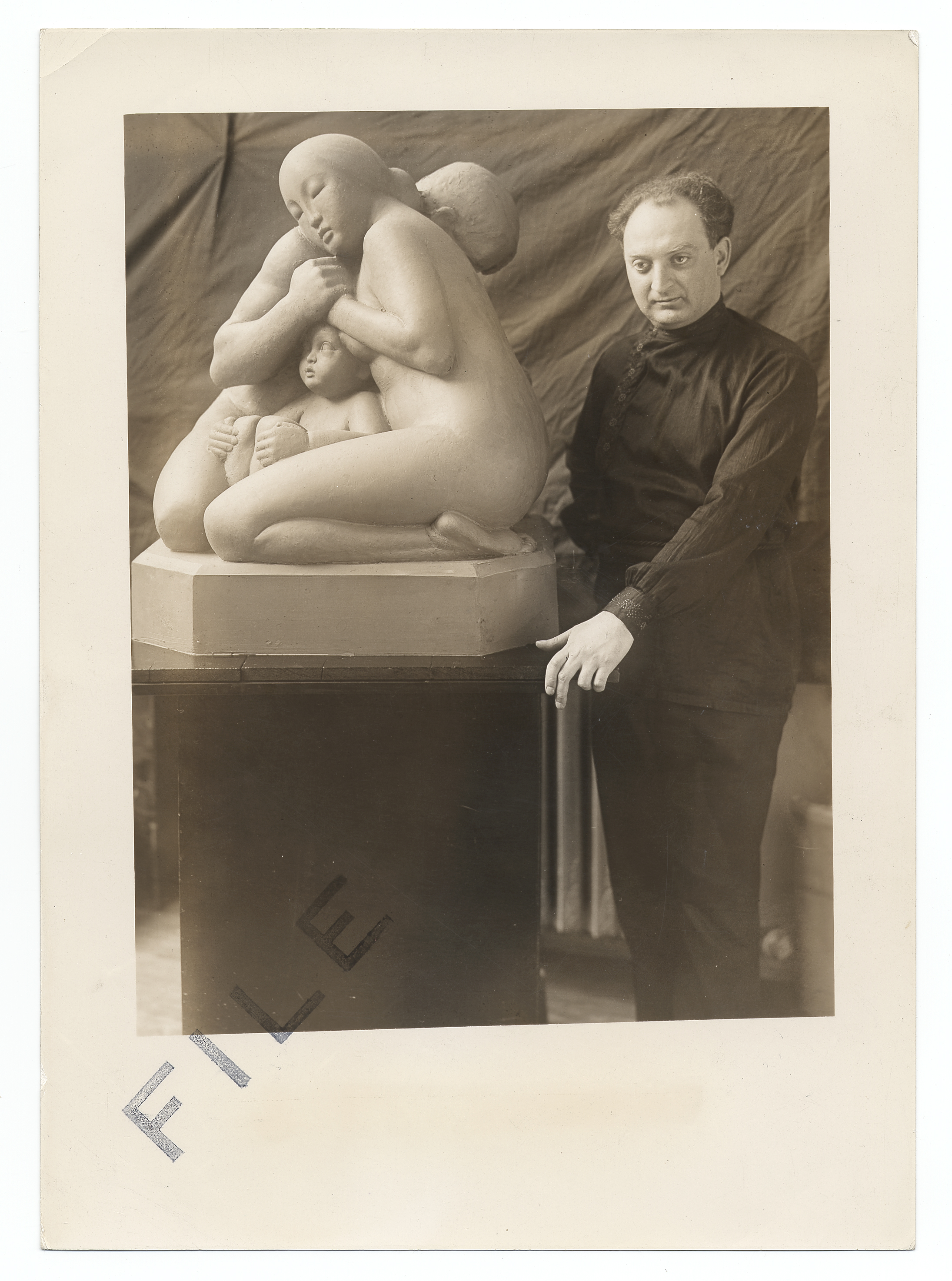 Marans standing next to a sculpture, photographed for the Works Progress Administration. Identification on accompanying label (handwritten and typewritten): Sculptor: Marans, Moissaye; 252 Fulton St. Bklyn, NY.